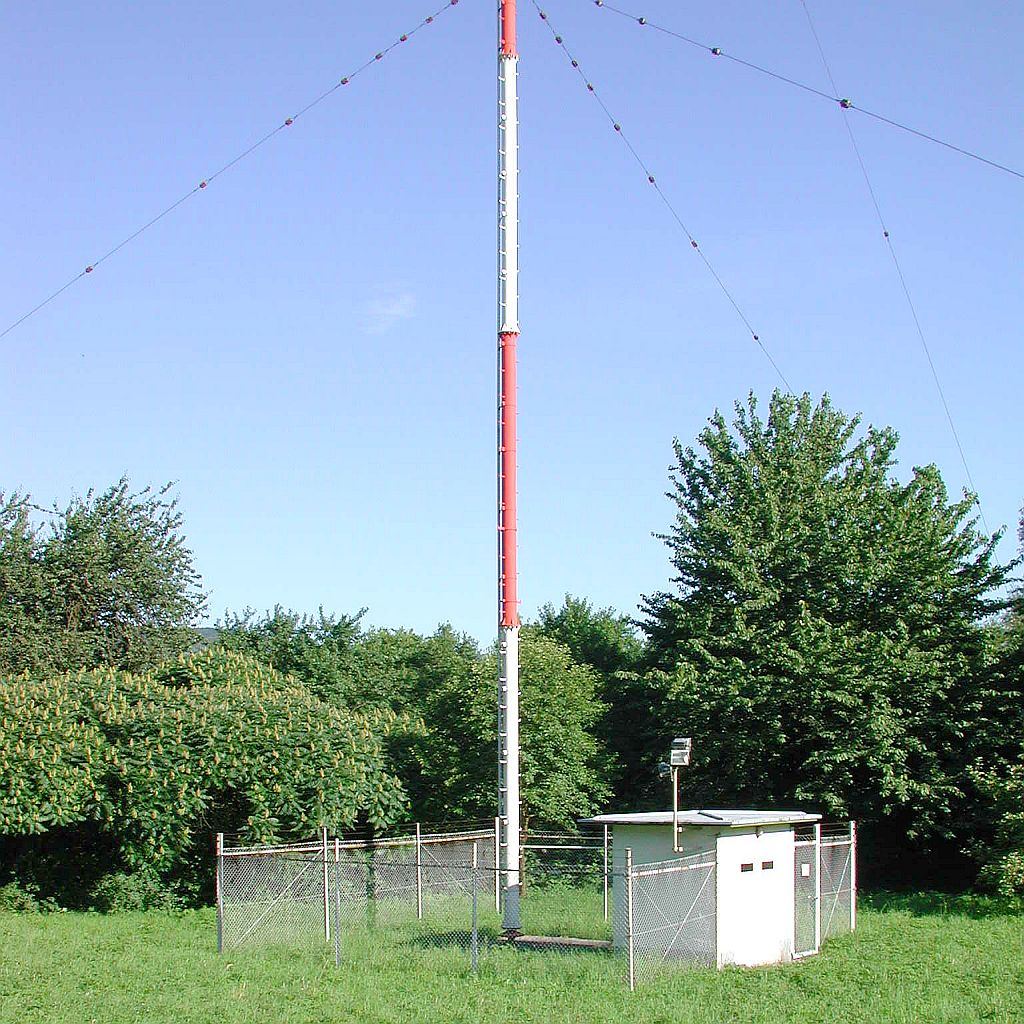 SWR medium wave transmitter Dossenheim - base of the mast. Taken 2001-06-23